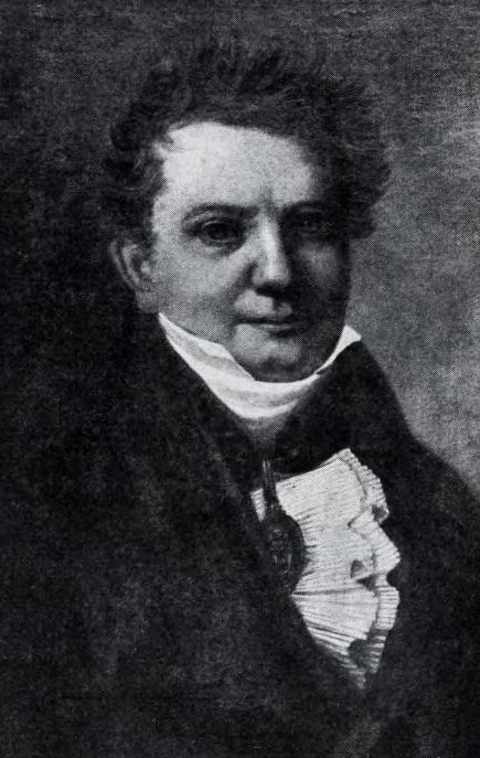 Andreas Arntzen (1777–1837), Norwegian politician and lawyer